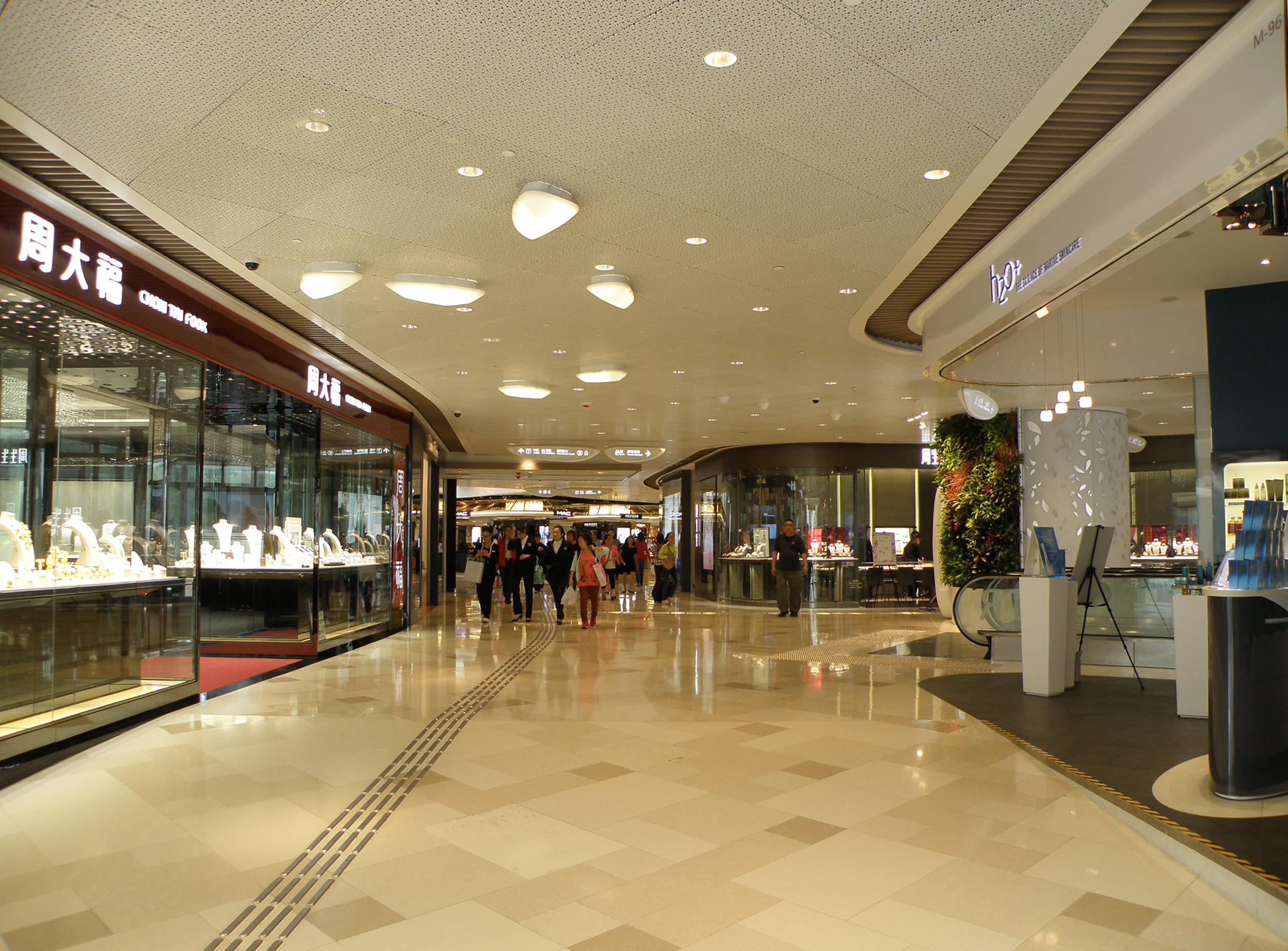 V City south side